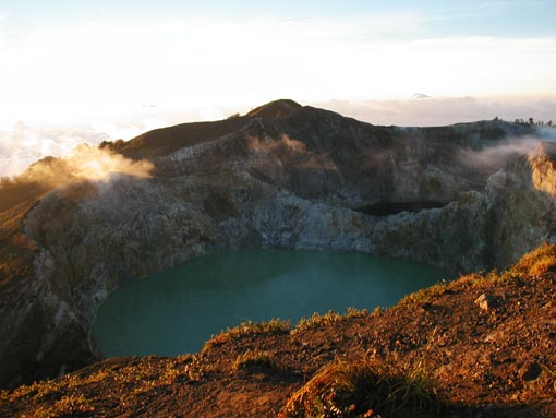 Round Moni, lake in the volcanic craters of Kelimutu.